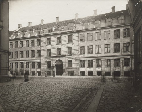 Christians Plejehus in Store Kongensgade in Copenhagen, Denmark